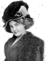 Maggie Hall, also known as "Molly Burdan", "Molly B'Damn", or "Molly B'Dam": 19th century prostitute and careworker based in the town of Murray, Idaho